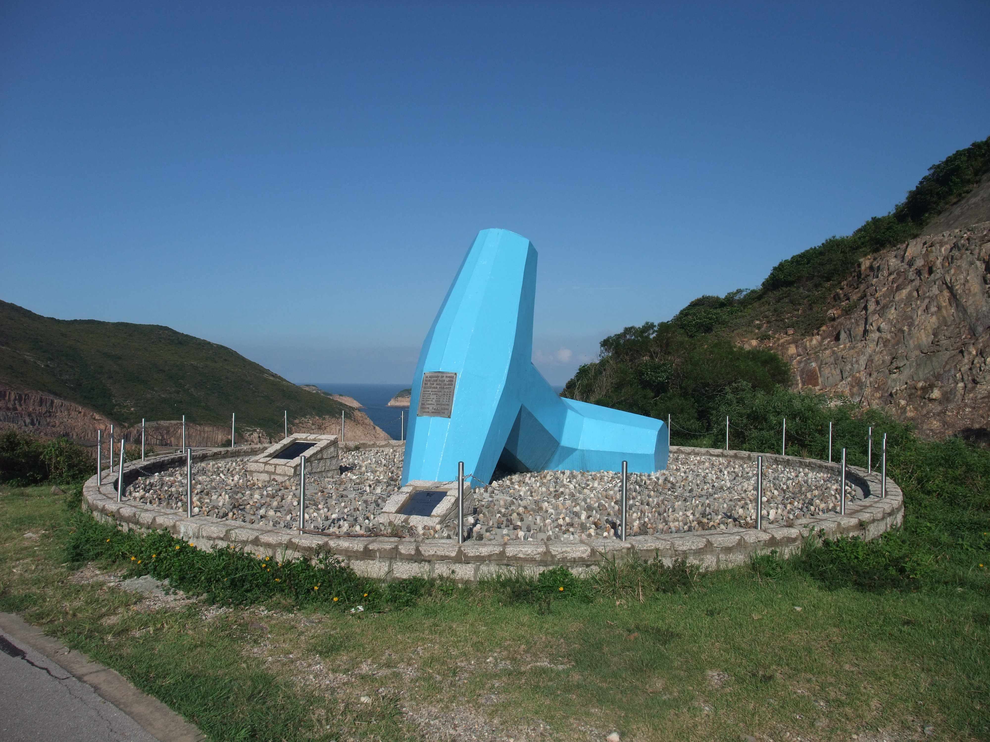 Photo of Monument, East Dam, High Island Reservoir